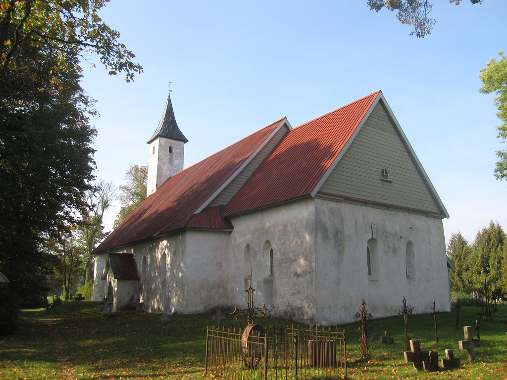 Nuckö Noarootsi Church